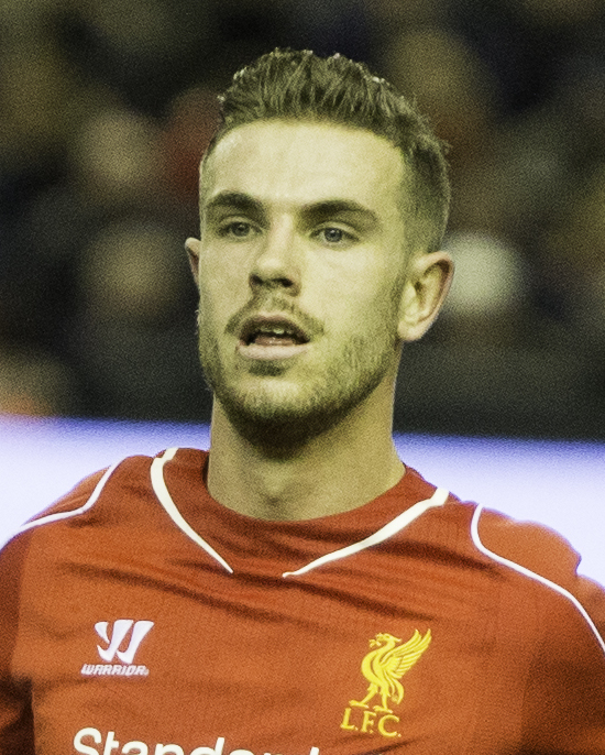 Jordan Henderson playing for Liverpool F.C. in a Premier League match against Arsenal at Anfield on 21 December 2014.